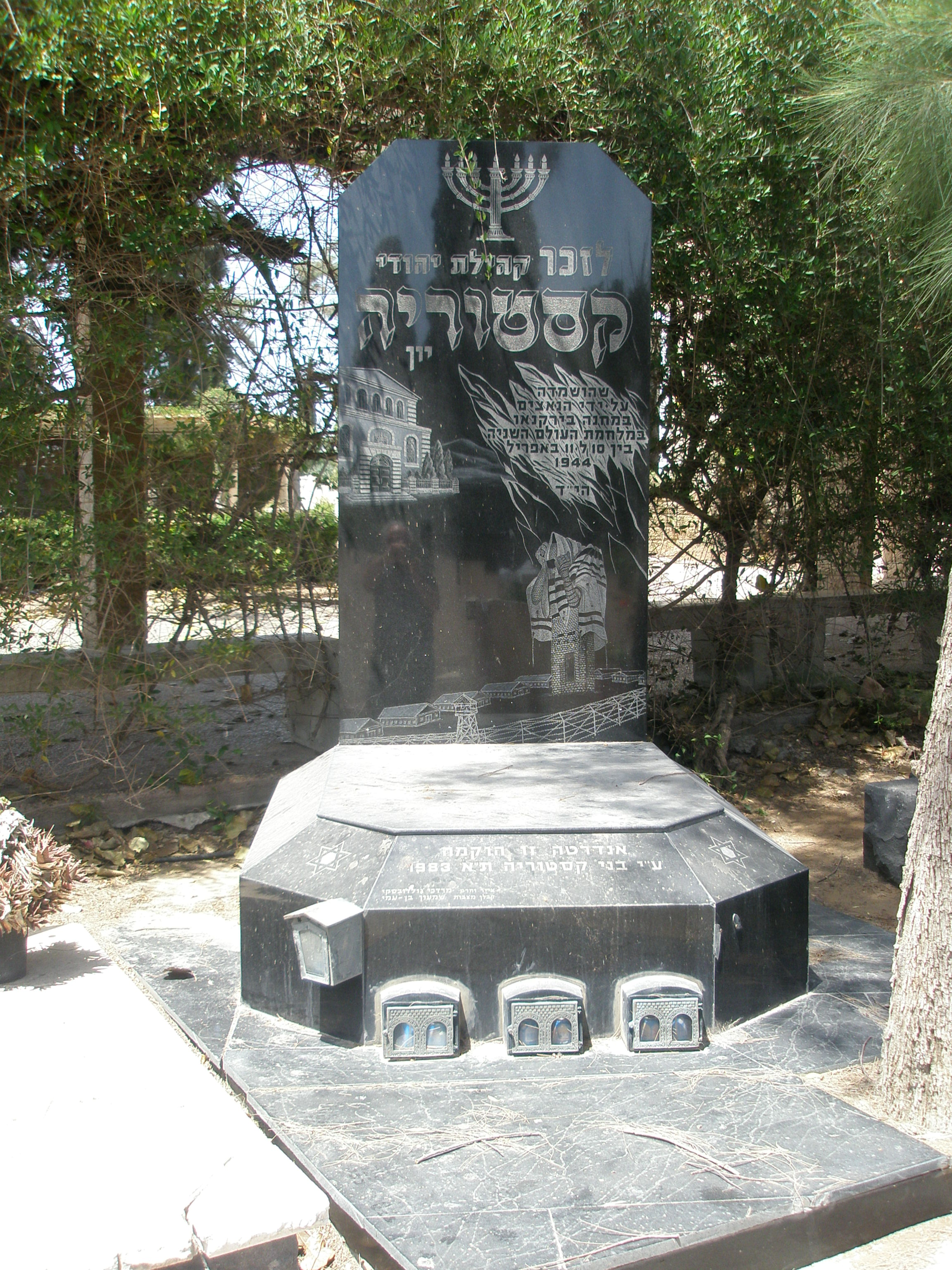 Kastoria Holocaust memorial at Kiriat Shaul cemetery, Israel.